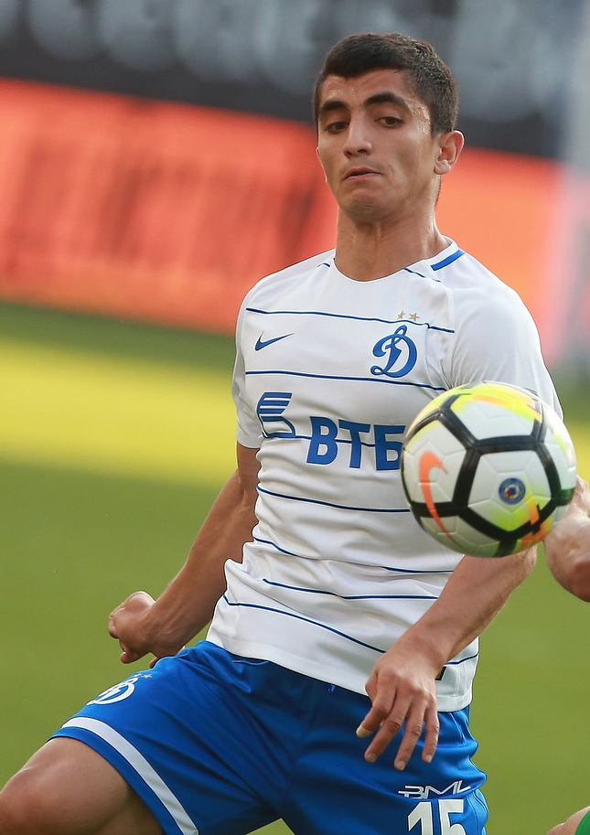 Ibragim Tsallagov with FC Dynamo Moscow in a game against FC Ufa.